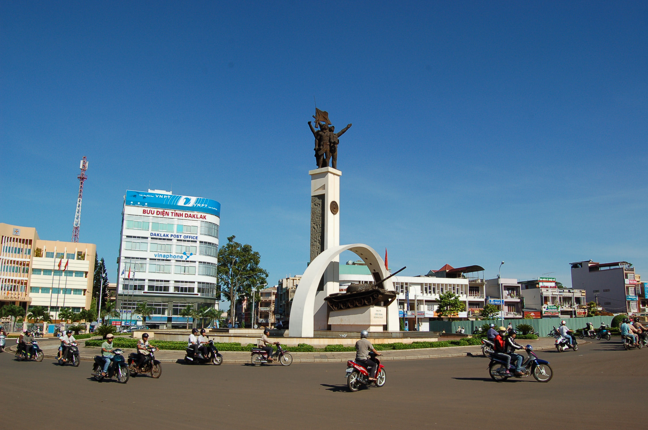 Buôn Ma Thuột city square (Central Highlands, Vietnam) - ISO code VN-E-DL